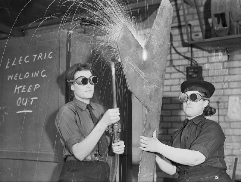 The Royal Navy during the Second World War A WRNS craftswoman at work with an acetylene cutter on a piece of metal being held by another woman at HMS TORMENTOR, Southampton.